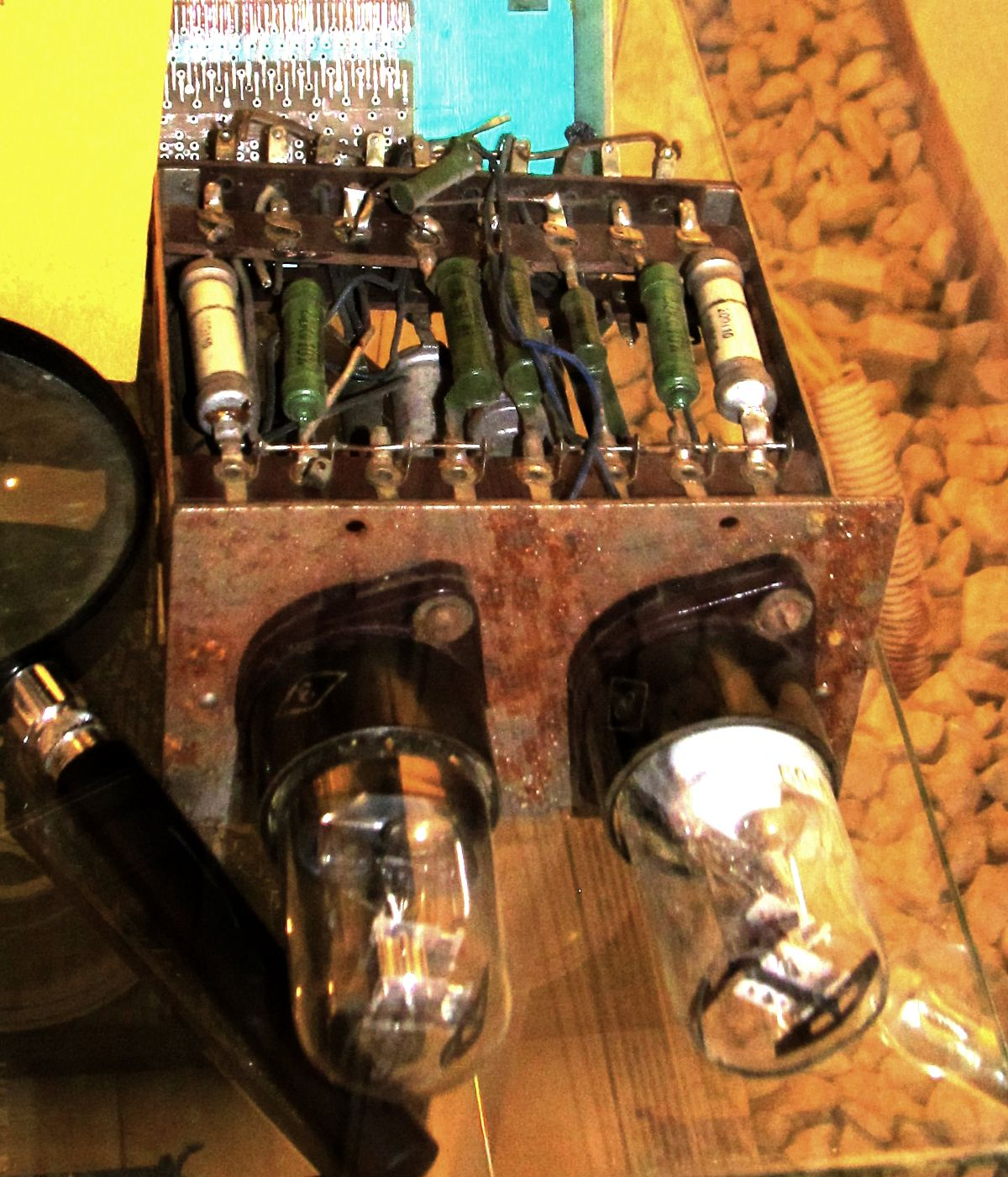 Flip-flop with vacuum tubes of MECIPT-1 at Museum of Banat, Timișoara.